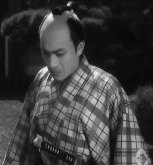 Screenshot from The Life of Oharu, 1952 film. Toshirō Mifune as Katsunosuke.